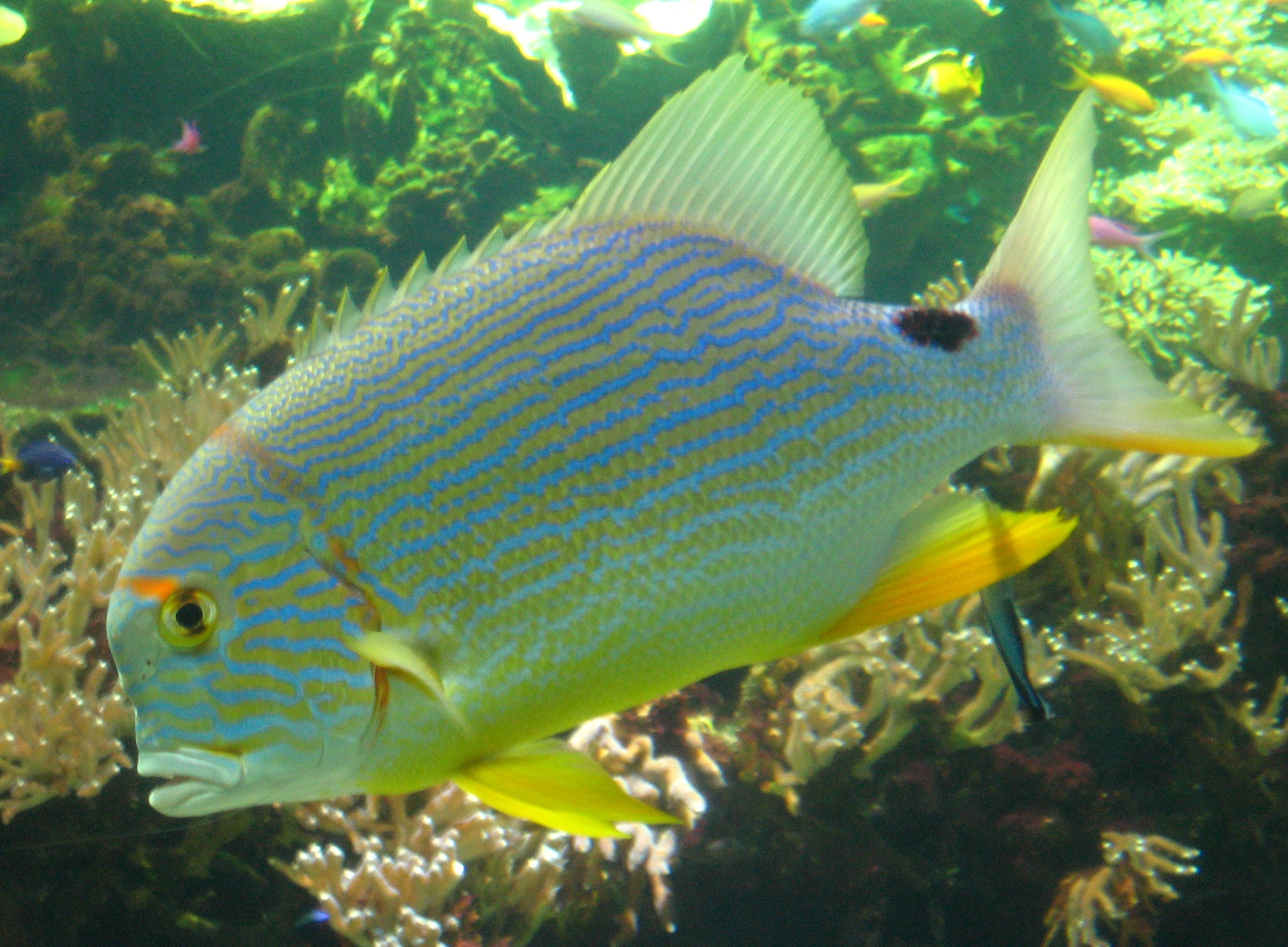 Symphorichthys spilurus in Nausicaä Centre National de la Mer